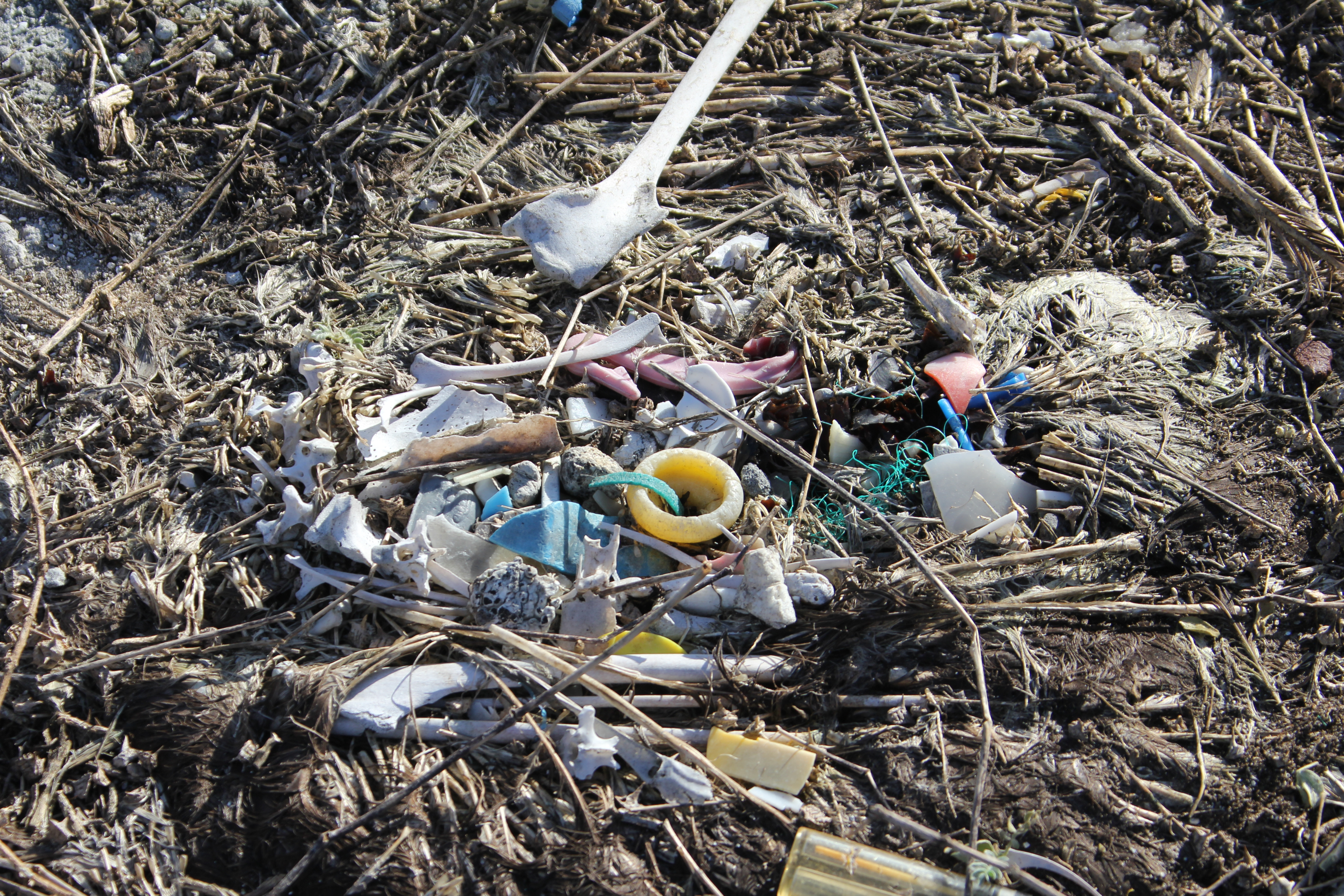 Laysan albatross carcass on Easern Island. Nearly all carcasses found on Midway have marine debris in them. The percentage of birds that die from consumption of marine debris, or its effects, is still unknown. It has been estimated that albatross feed their chicks approximately 10,000 lbs of marine debris annually on Midway, enough plastic to fill about 100 of the curbside trash containers we use in Honolulu. Midway Atoll National Wildlife Refuge in Papahanaumokuakea Marine National Monument. Credit: Andy Collins, NOAA Office of National Marine Sanctuaries